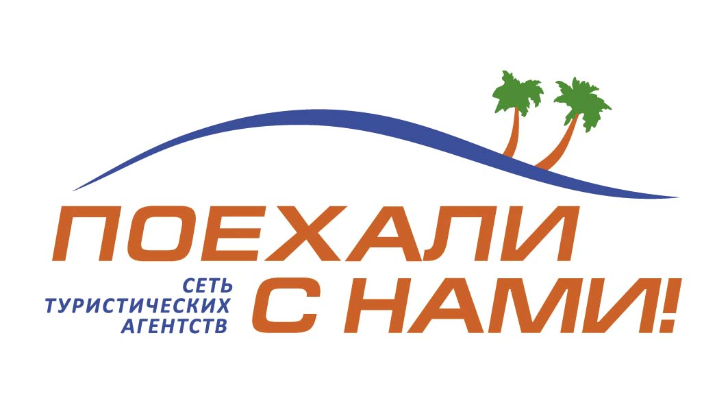 Logo poehalisnami